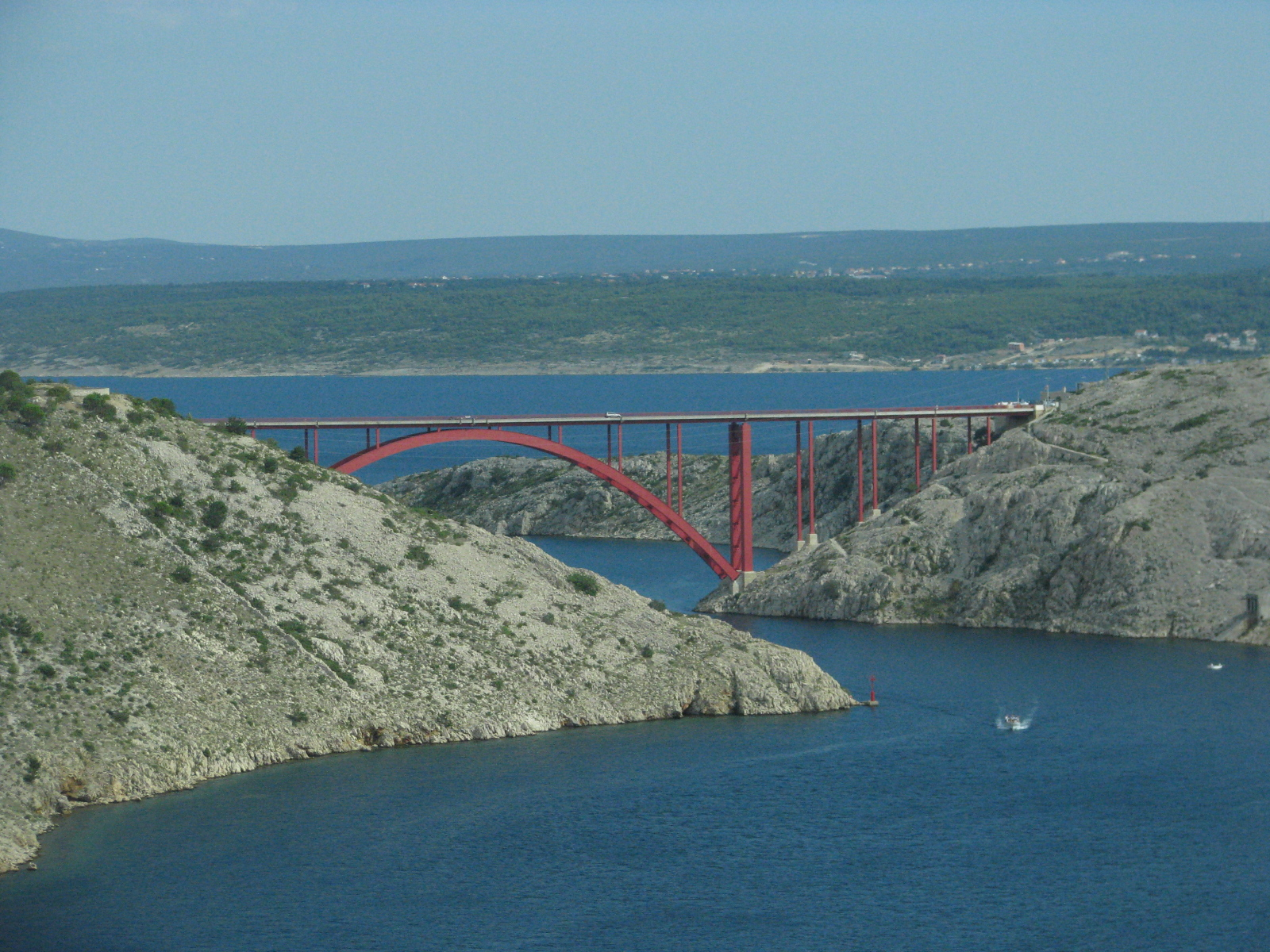 Old Maslenica Bridge